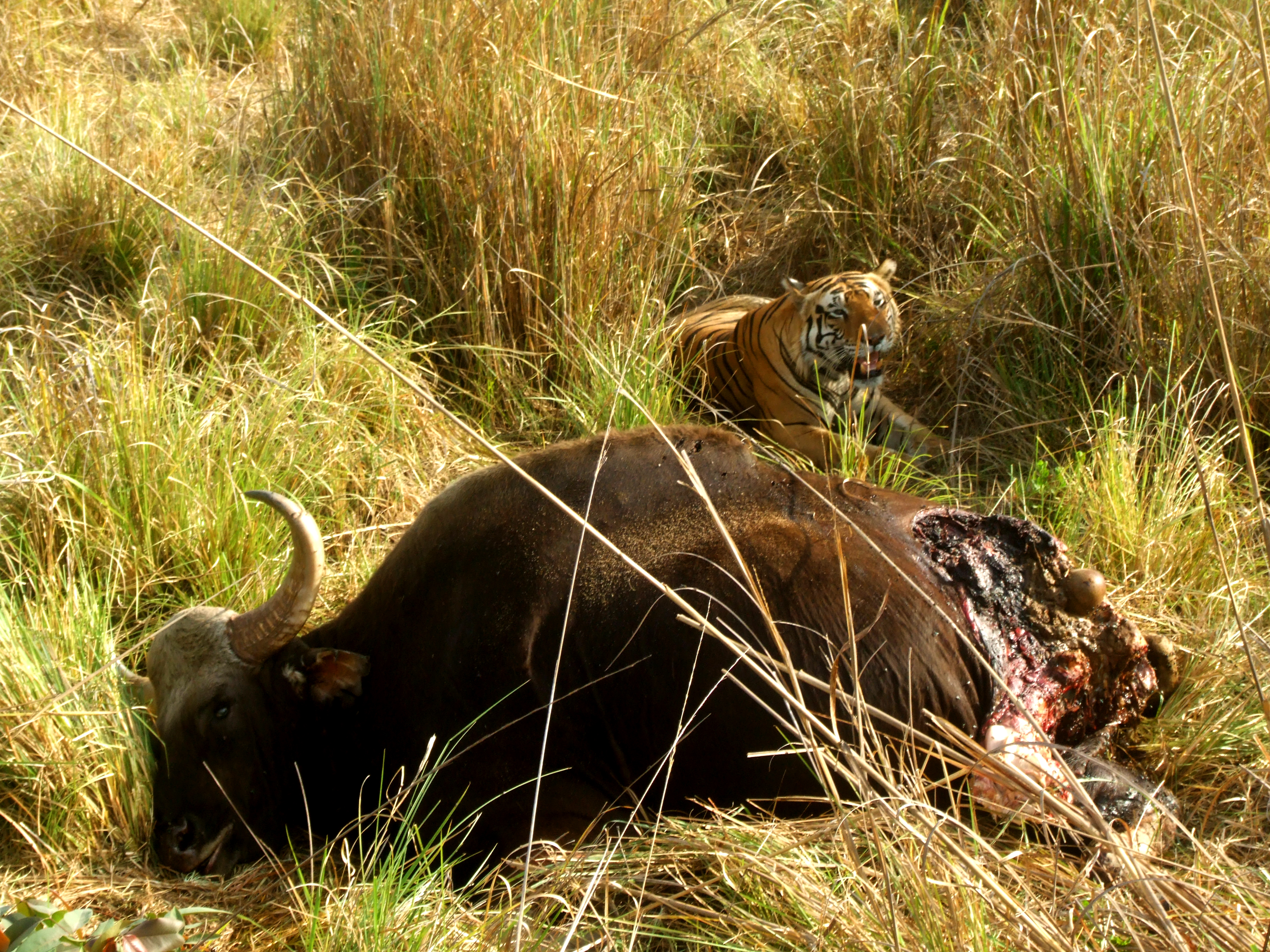 Tigers of Central India